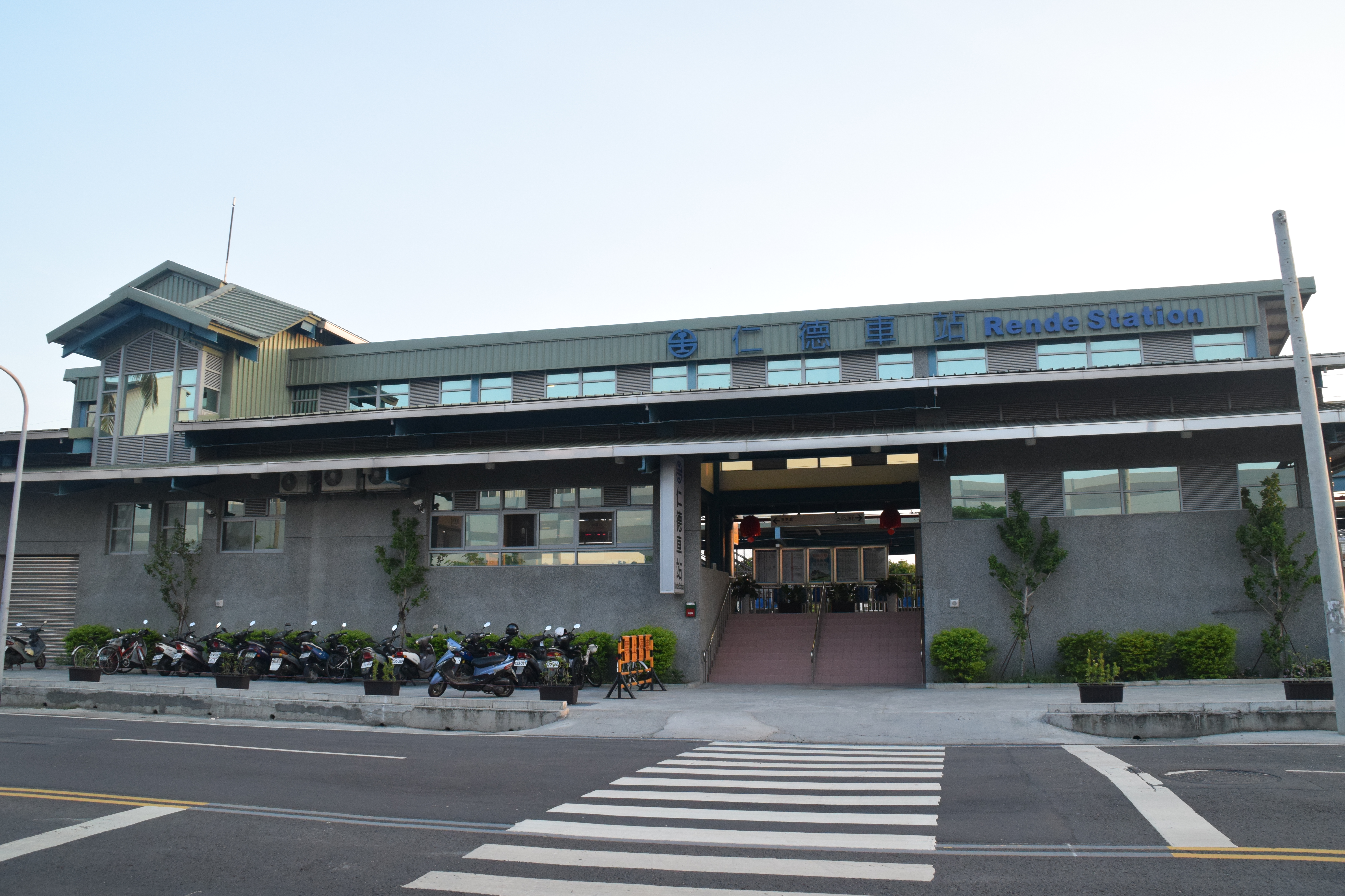 View across the road to TRA Rende Station.